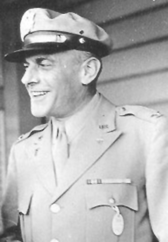 Colonel William Bleckwenn, senior consulting psychiatrist for the U.S. Army, in 1943 in Brisbane, Australia.